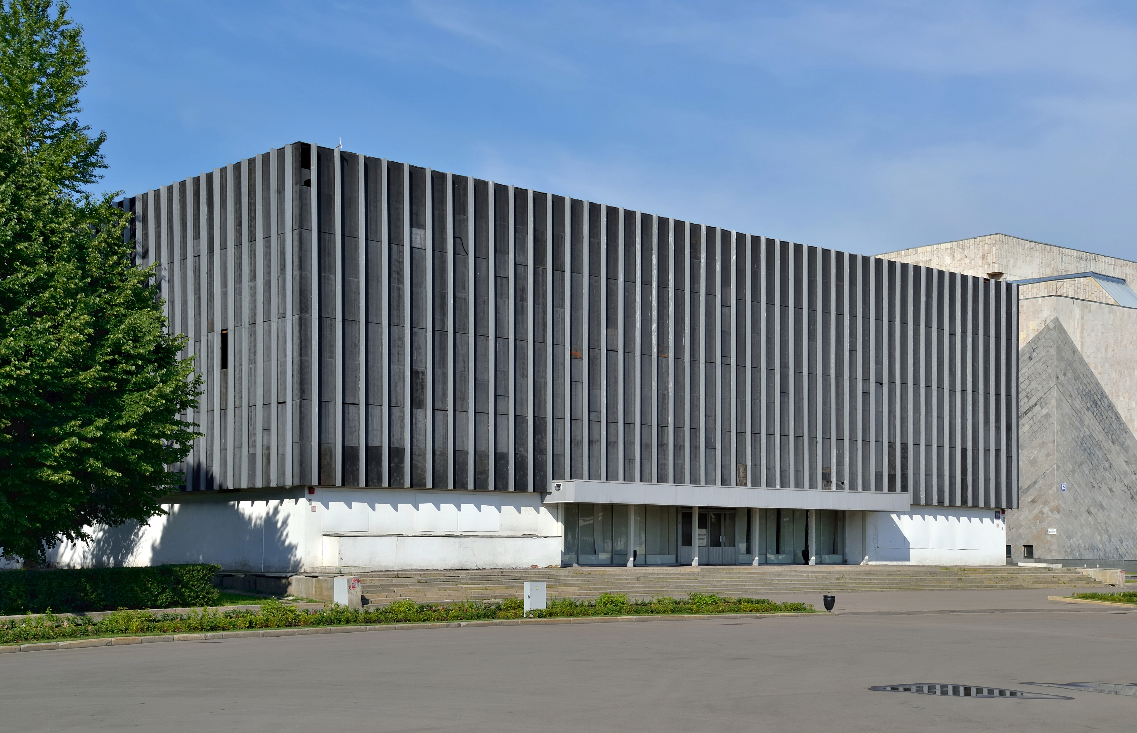 Moscow. VDNKh (the Exhibition of Achievements of the National Economy). Pavilion No 11 Metallurgy (Kazakhstan). 1954, reconstructions in 1966–1967 and 2017–2019. The slag glass-ceramic façade of the pavilion, depicted on the photograph, existed in 1967–2017. A photo from the user collection VDNKh.